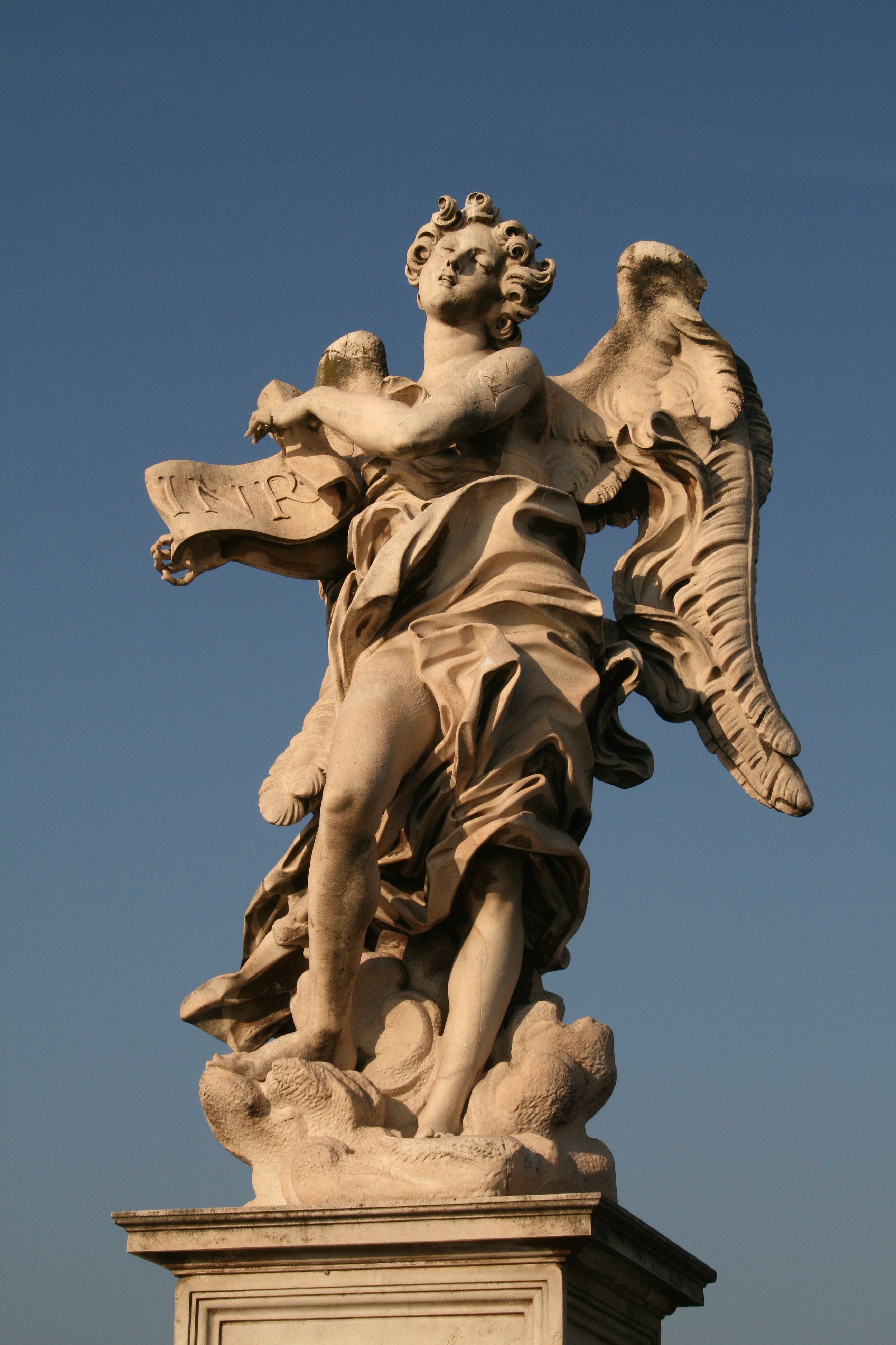 Angel bearing the superscription, copy of Bernini by Giulio Cartari, with the inscription “regnavit a ligno deus” ("God has ruled us from the wood [of the cross]", from Venantius Fortunatus' Vexilla regis, a missquotation of psalm 96:10), western side of the Ponte Sant'Angelo in Rome.